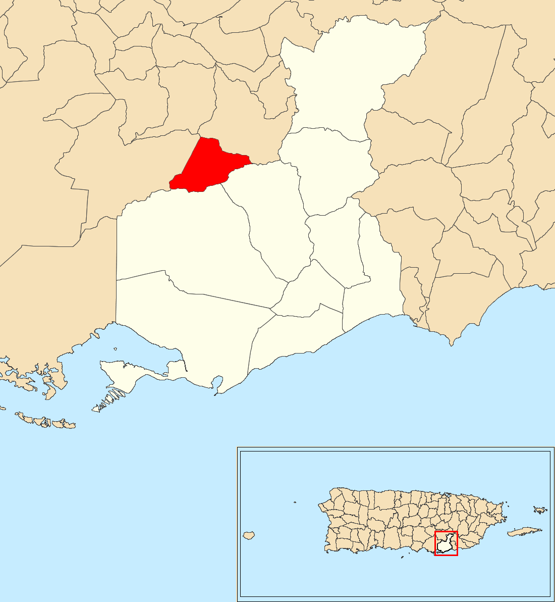 Carmen, Guayama, Puerto Rico locator map